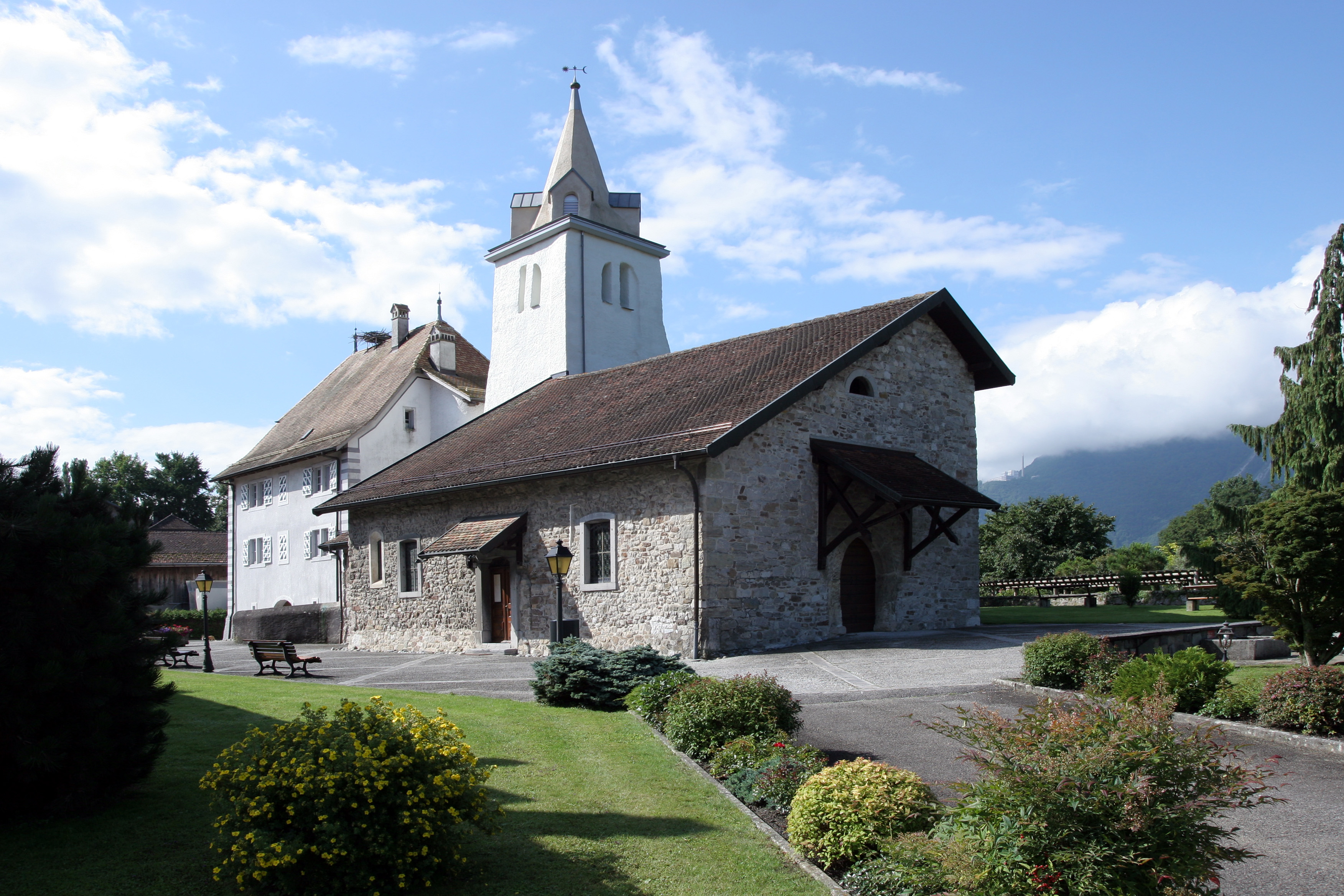 The church of Noville VD, Switzerland.